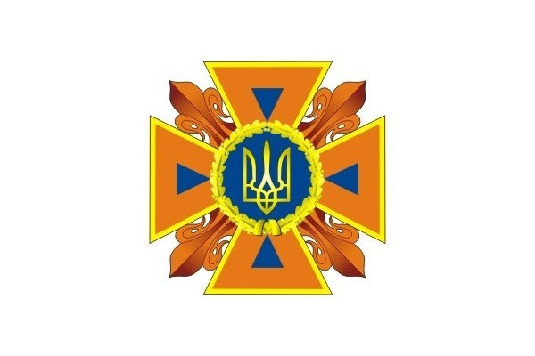 State Emergency Service of Ukraine Ensign